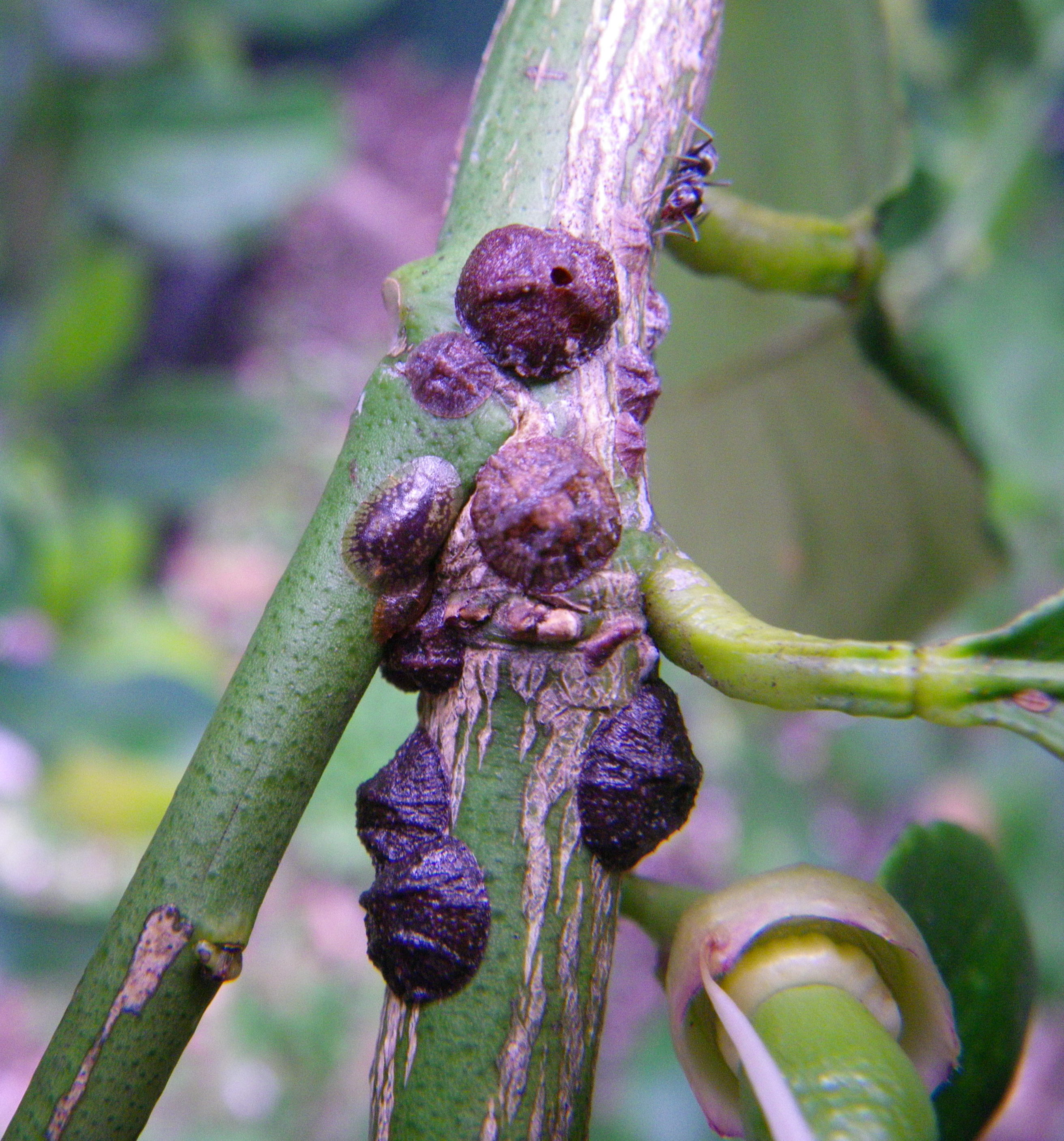 Black scale (Saissetia oleae) on a lemon tree in Sydney, New South Wales, Australia.